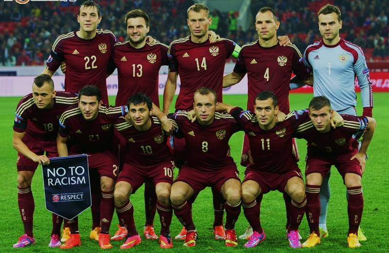 Russia national football team